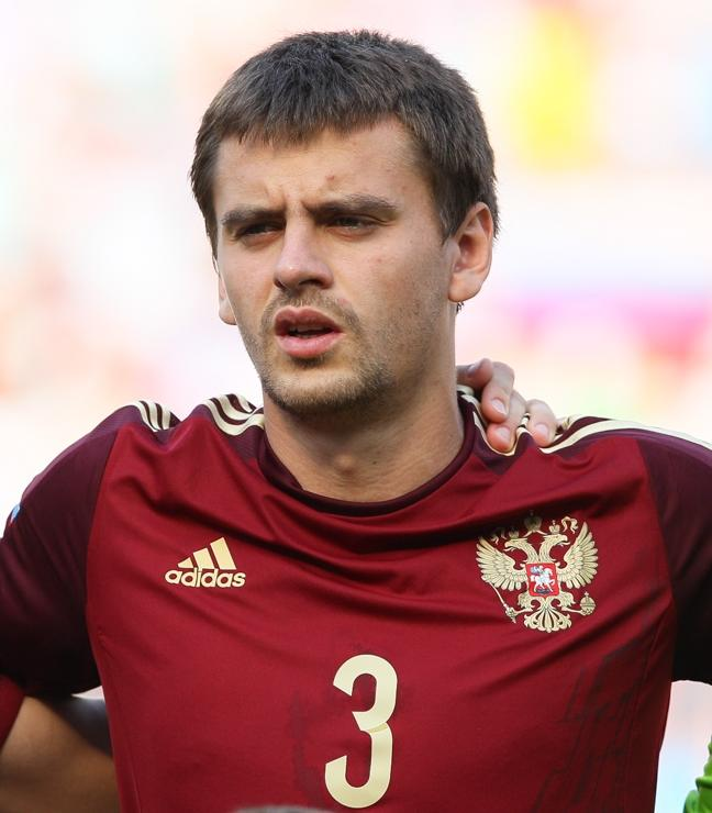 Georgi Shchennikov representing Russian national team in a friendly game against Morocco in Moscow.